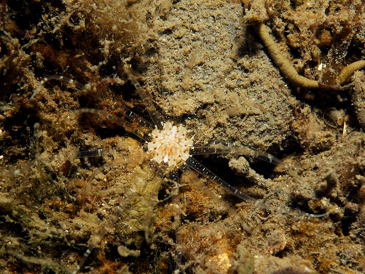 The sea anemone Edwardsia claparedii, Valentia Island, Co. Kerry, Ireland.